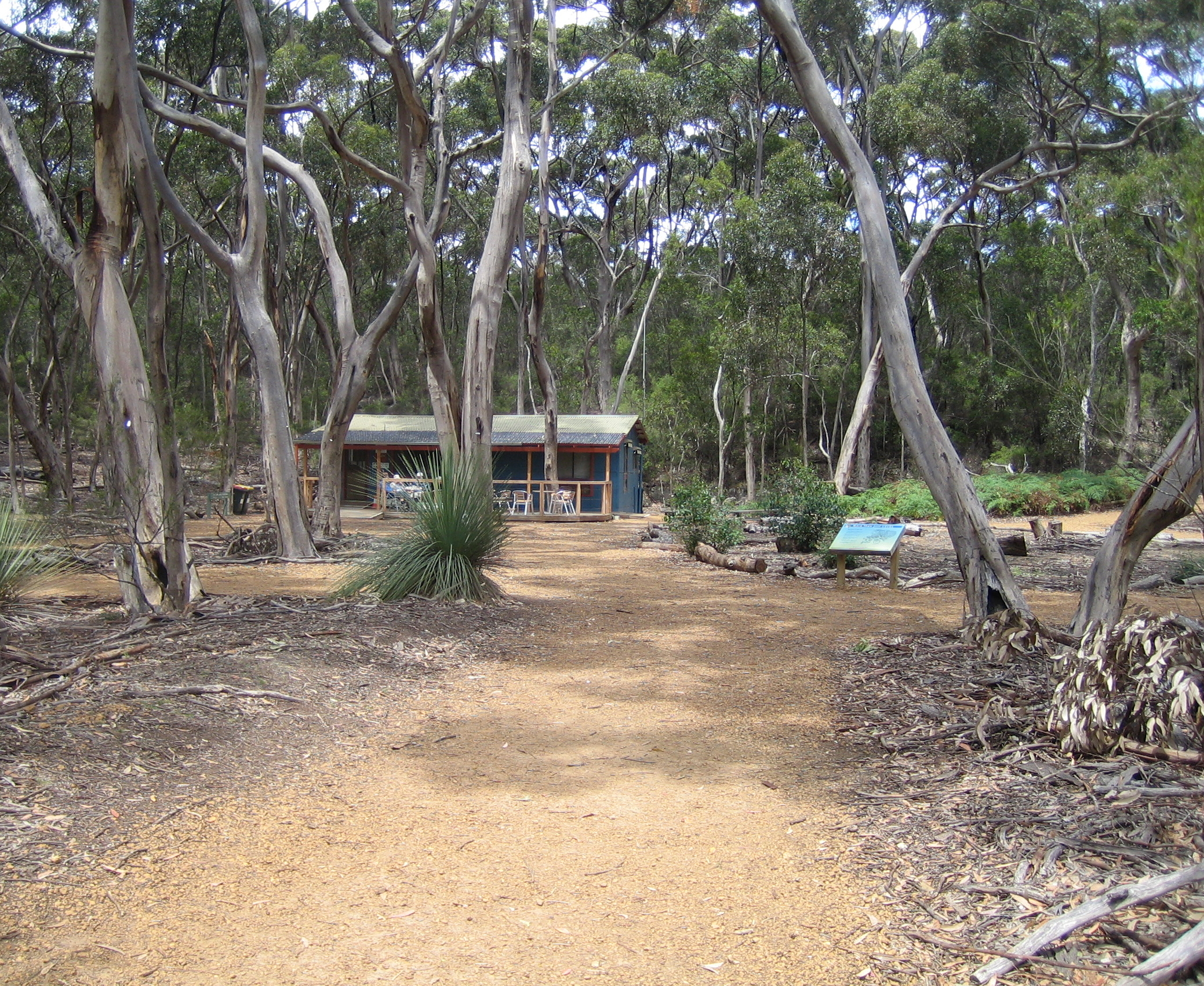 Kelly Hillcaves visitors centre